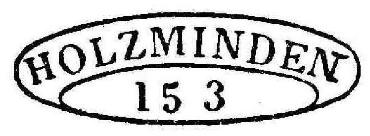 Duchy of Brunswick postmark; 15 3 refers probably to March 15